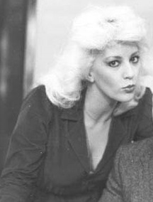 Luisa Albinoni- actriz y vedette argentina